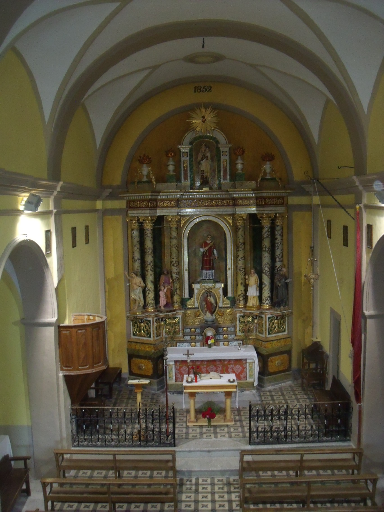 Church of Sant Esteve in Sisquer, in the municipality of Guixers, in the comarca of el Solsonès.